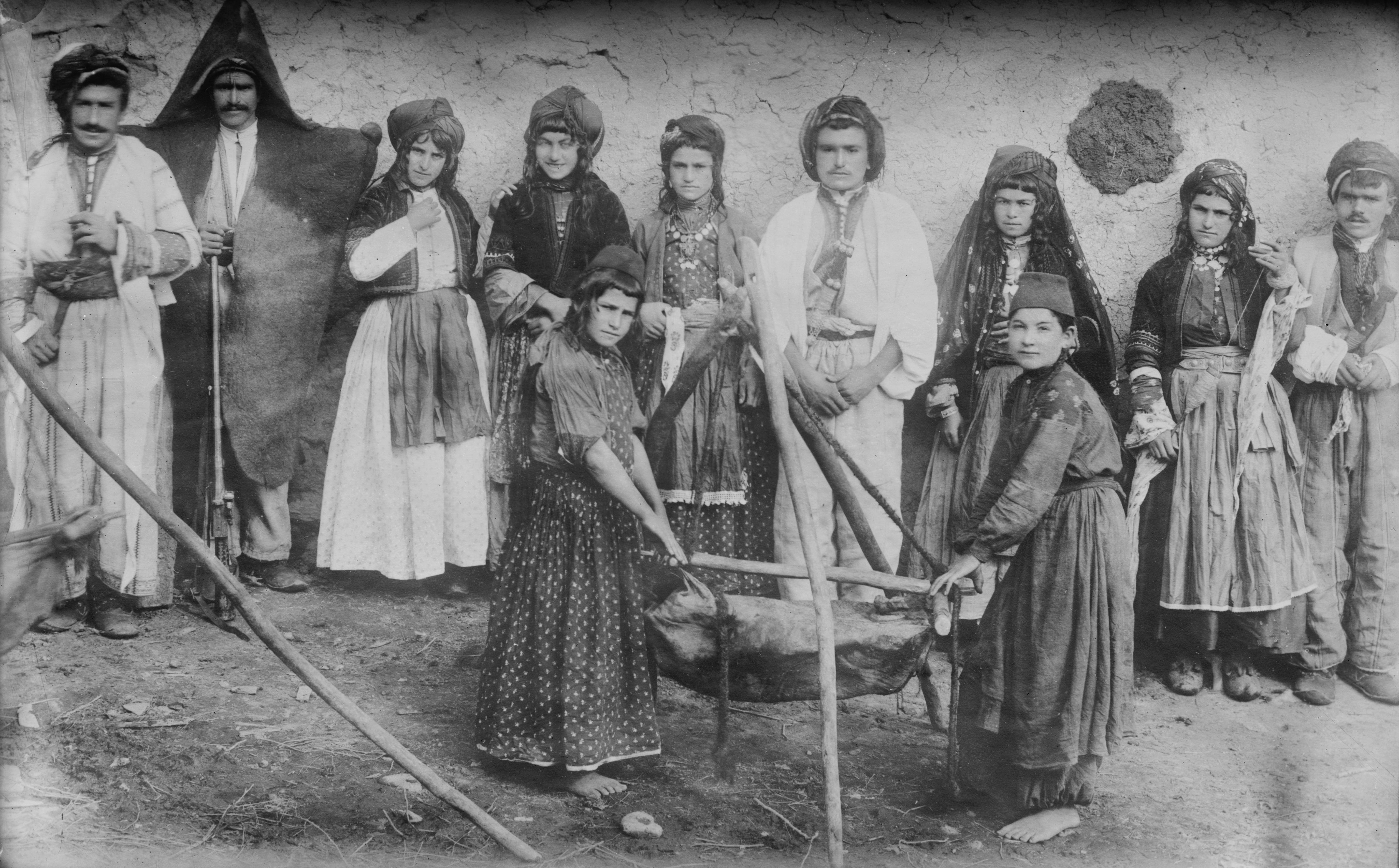 Nestorian (Assyrian) Christian family making butter, Mawana, Persia